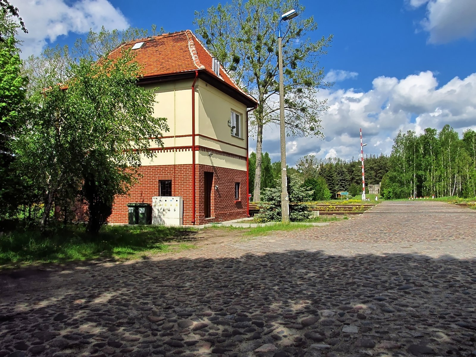 Railway control room Dworcowa Street